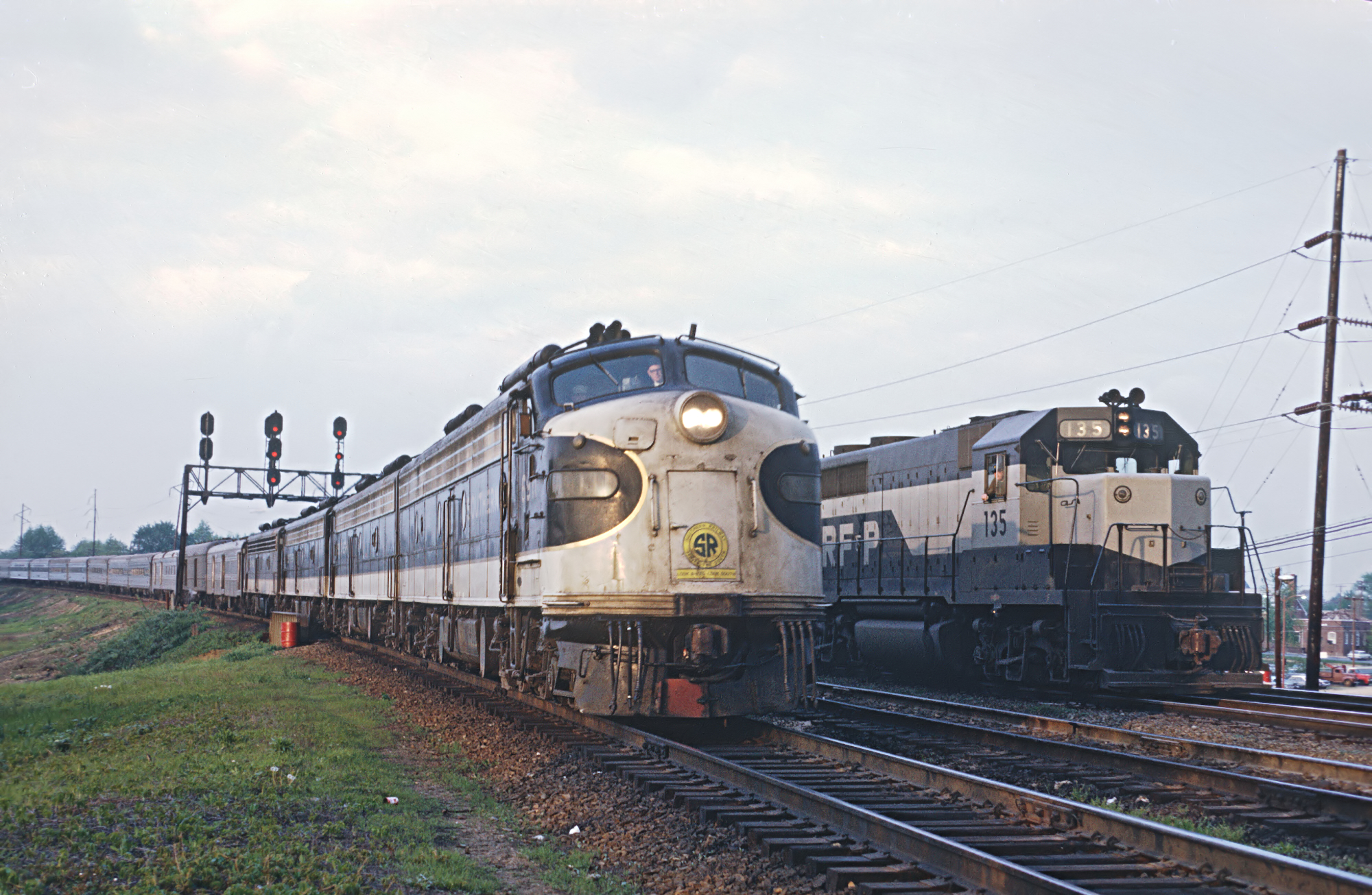 Southern Railway Train 37/47, The Crescent/The Southerner, arriving at Alexandria Union Station on April 29, 1969. Notice the second face in the cab looking at us (I was with Roger). A Roger Puta Photograph